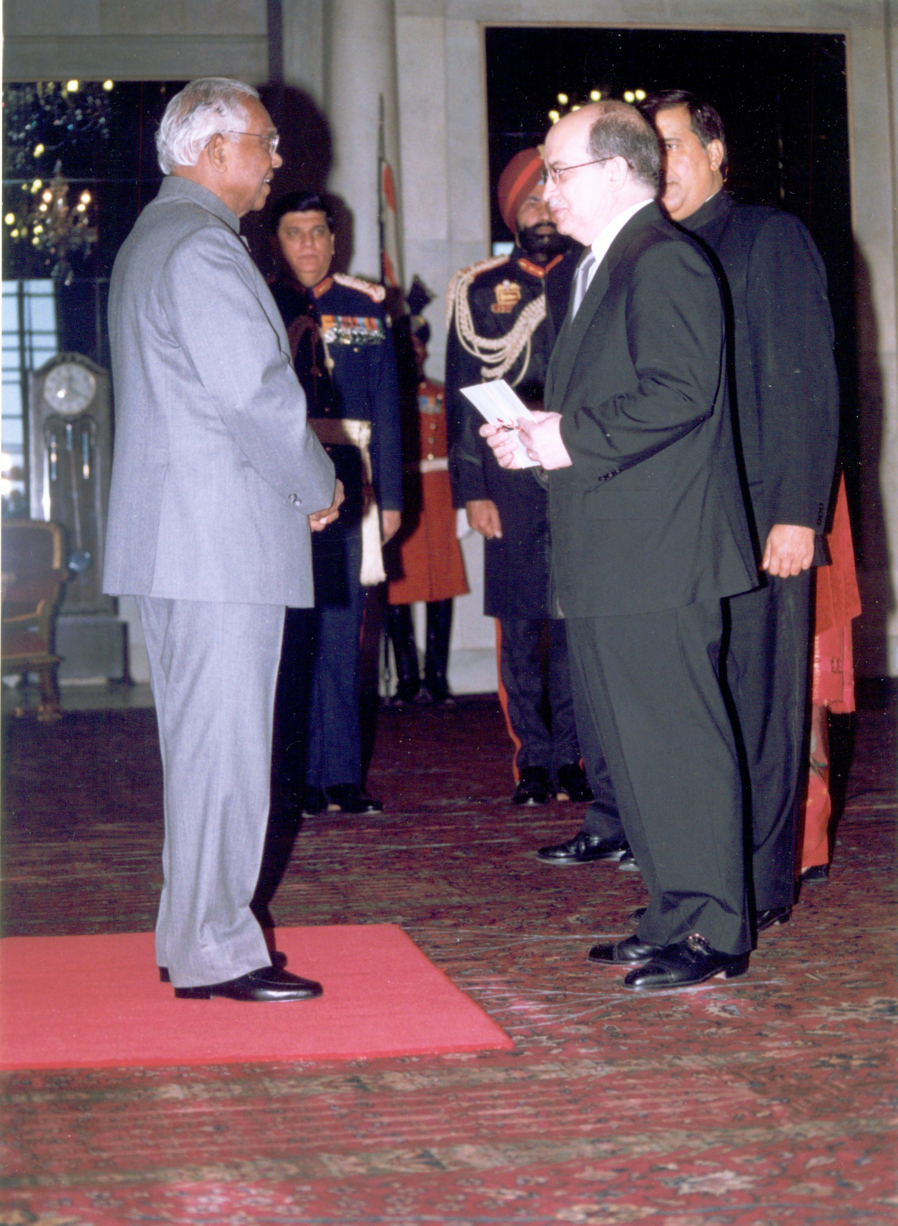 Ambassador Talhouni of Jordan presenting his credentials to the President of Indua